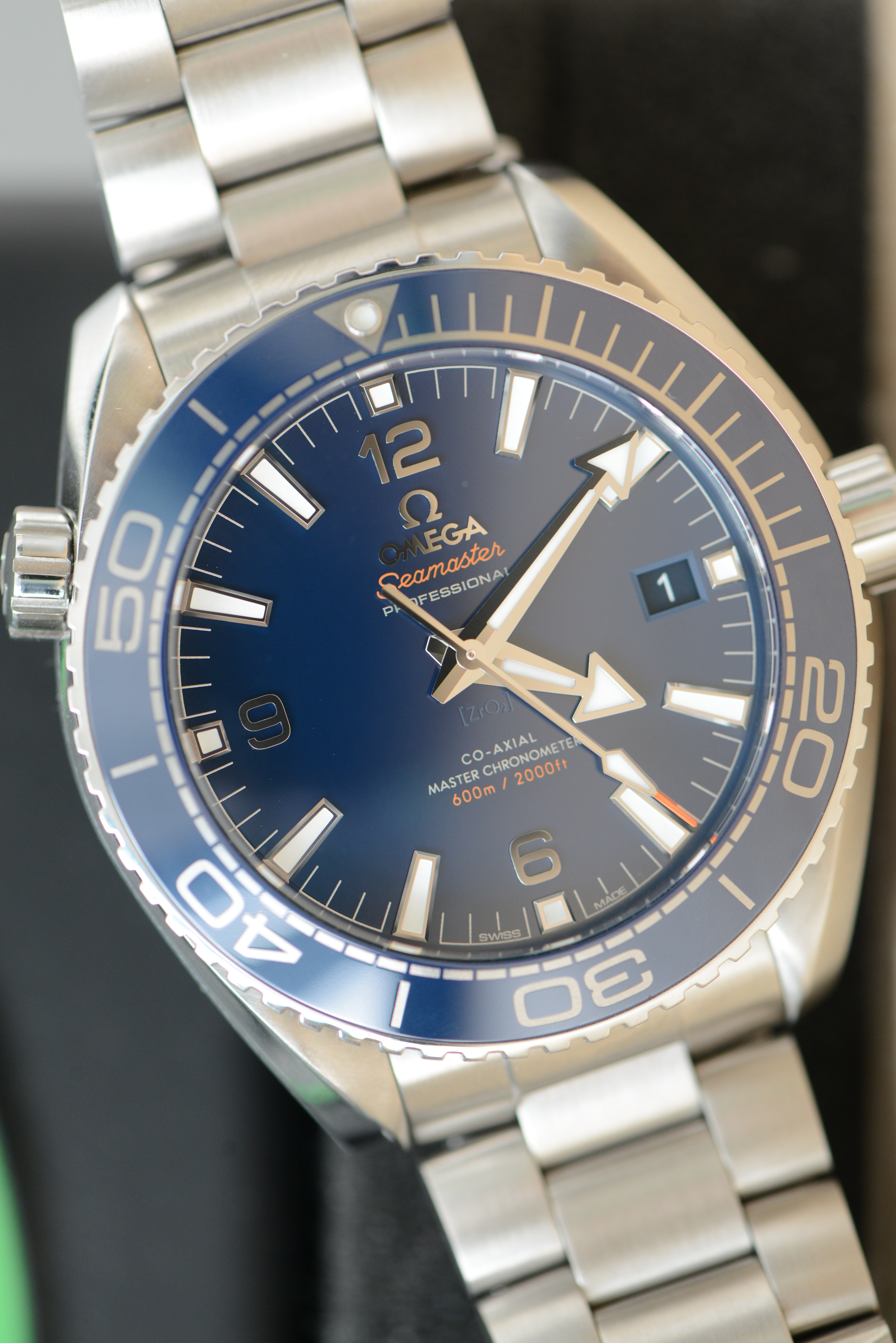 Omega Seamaster Professional Planet Ocean co-axial master chronometer. Calibre 8900. Reference 215.30.44.21.03.001.